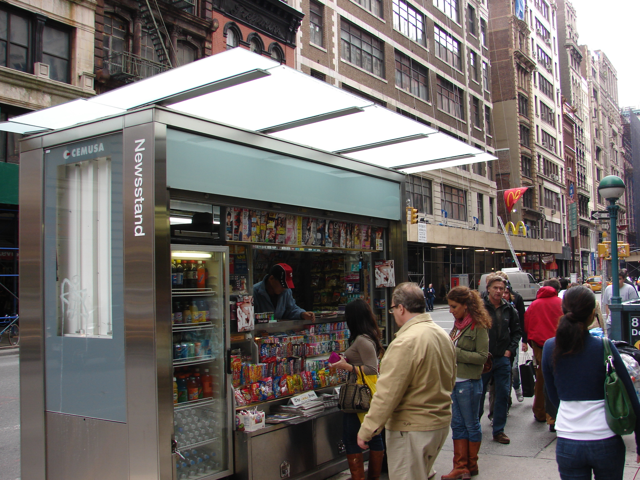 This photo is of Wikis Take Manhattan goal code S10, Newsstand.